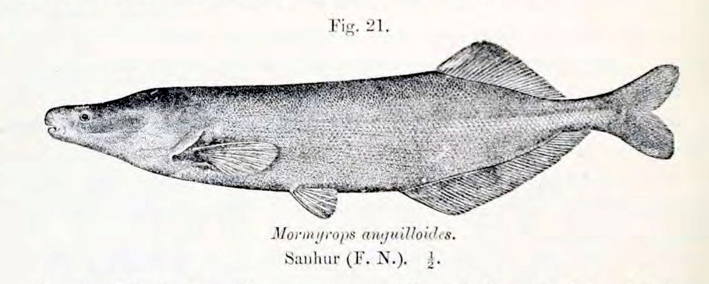 Roof-bottelneusCornish jack